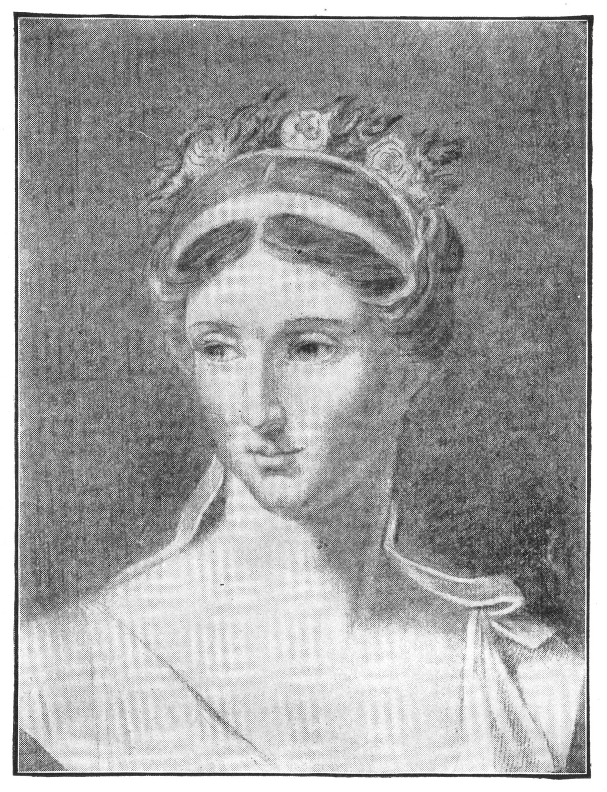 Isabella Angela Colbran, Rossini's first wife